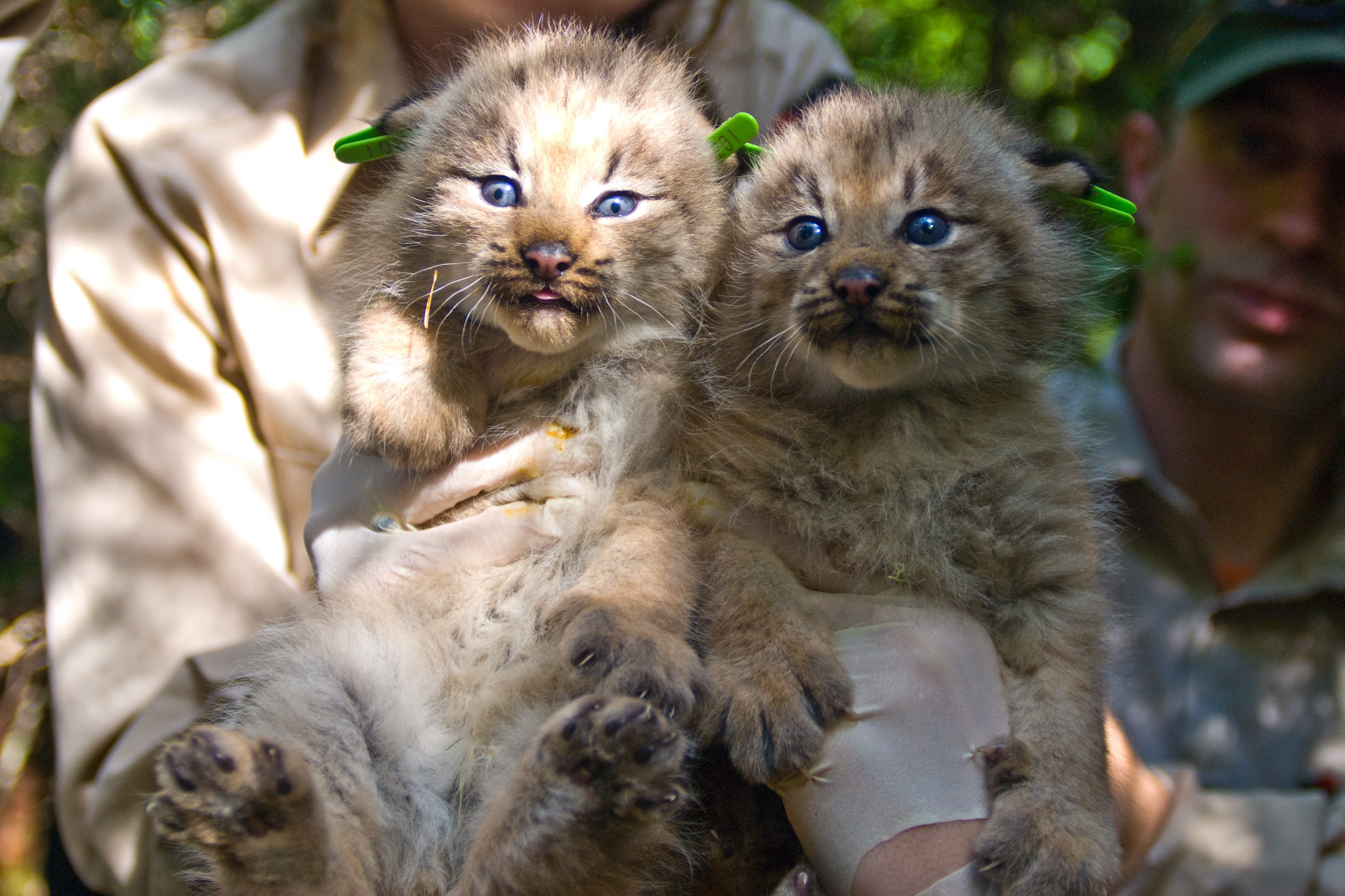 Two Canada Lynx kittens after being processed. Credit: James Weliver / USFWS